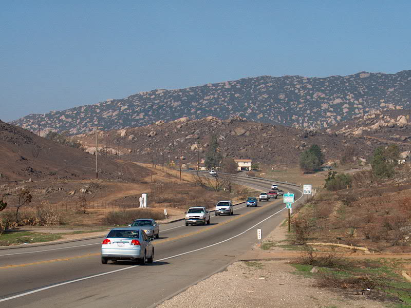 State Route 67 north of Poway Rd. Taken a few months after the 2003 Cedar Fire. Public domain image.